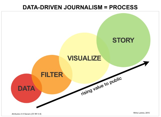 This simple visual overview aims to show that data-driven journalism is a process. In order to make sense there should be an understanding that raw data needs to be (1) available, (2) filtered for patterns, (3) visualized to help people understand the meaning and (4) the data needs to be turned into storys, because otherwise people will not understand or remember the issue.